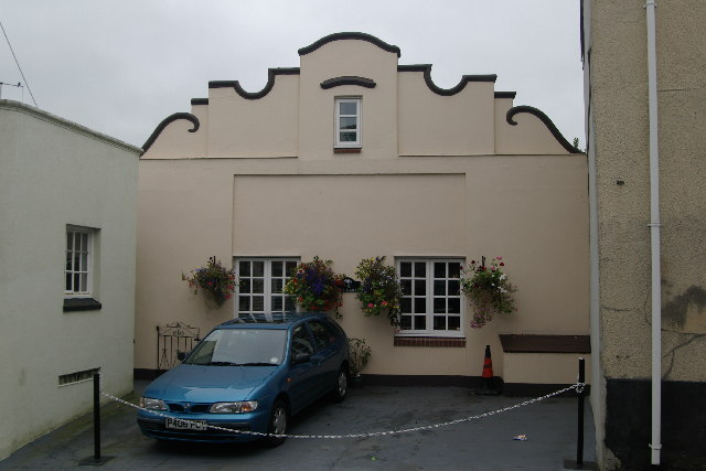 Lostwithiel Old Fire Station. Lostwithiel Old Fire Station, Bodmin Hill, Lostwithiel, Cornwall. Originally used as a cinema, then converted to a fire station. Since the new fire station in Pleyber Christ Way has been opened (see 56156), it has been converted to a domestic dwelling.